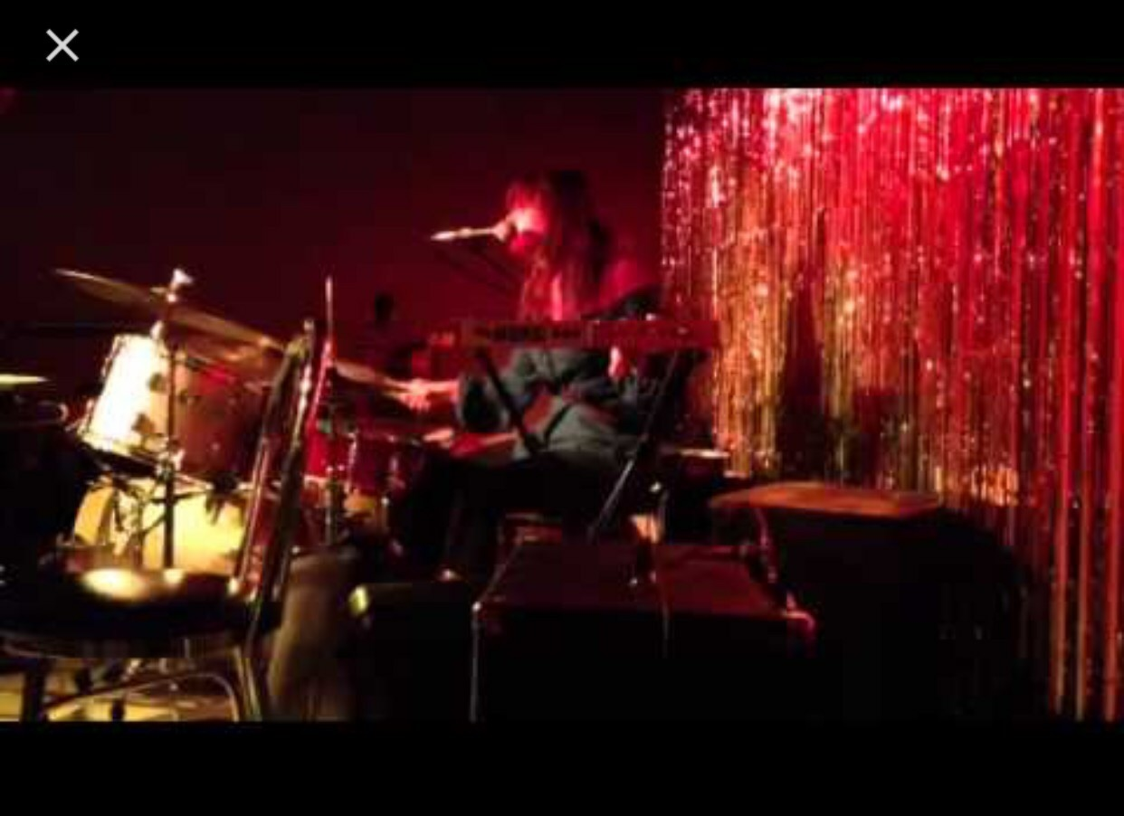 Cortney Tidwell drumming & singing